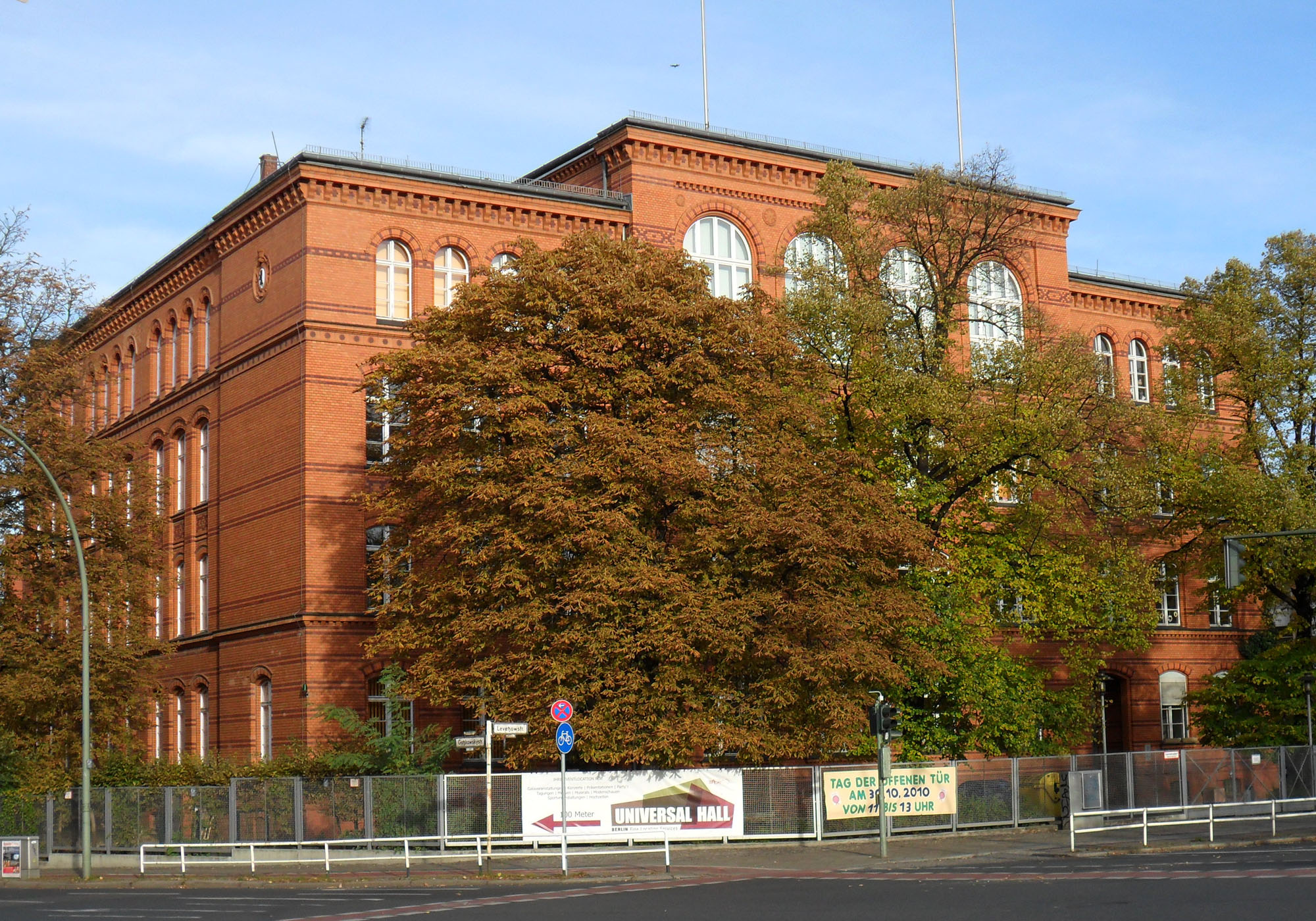 Gotzkowsky-Primary School in Berlin-Moabit